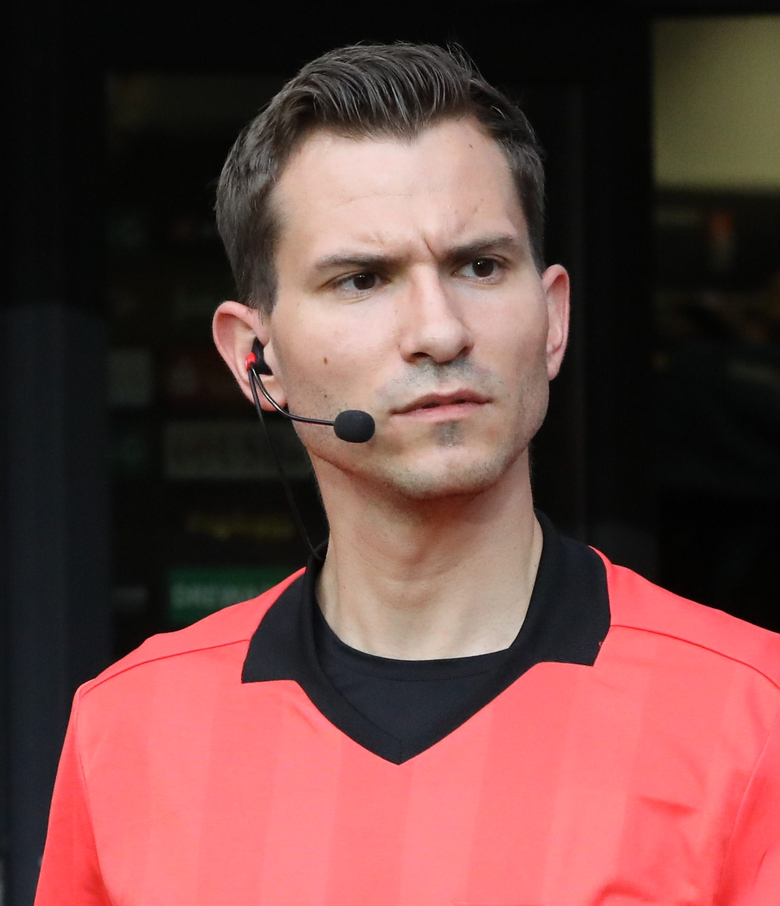 Test game, 17th July 2019: SG Dynamo Dresden vs. Paris Saint-Germain 1:6 (0:3)